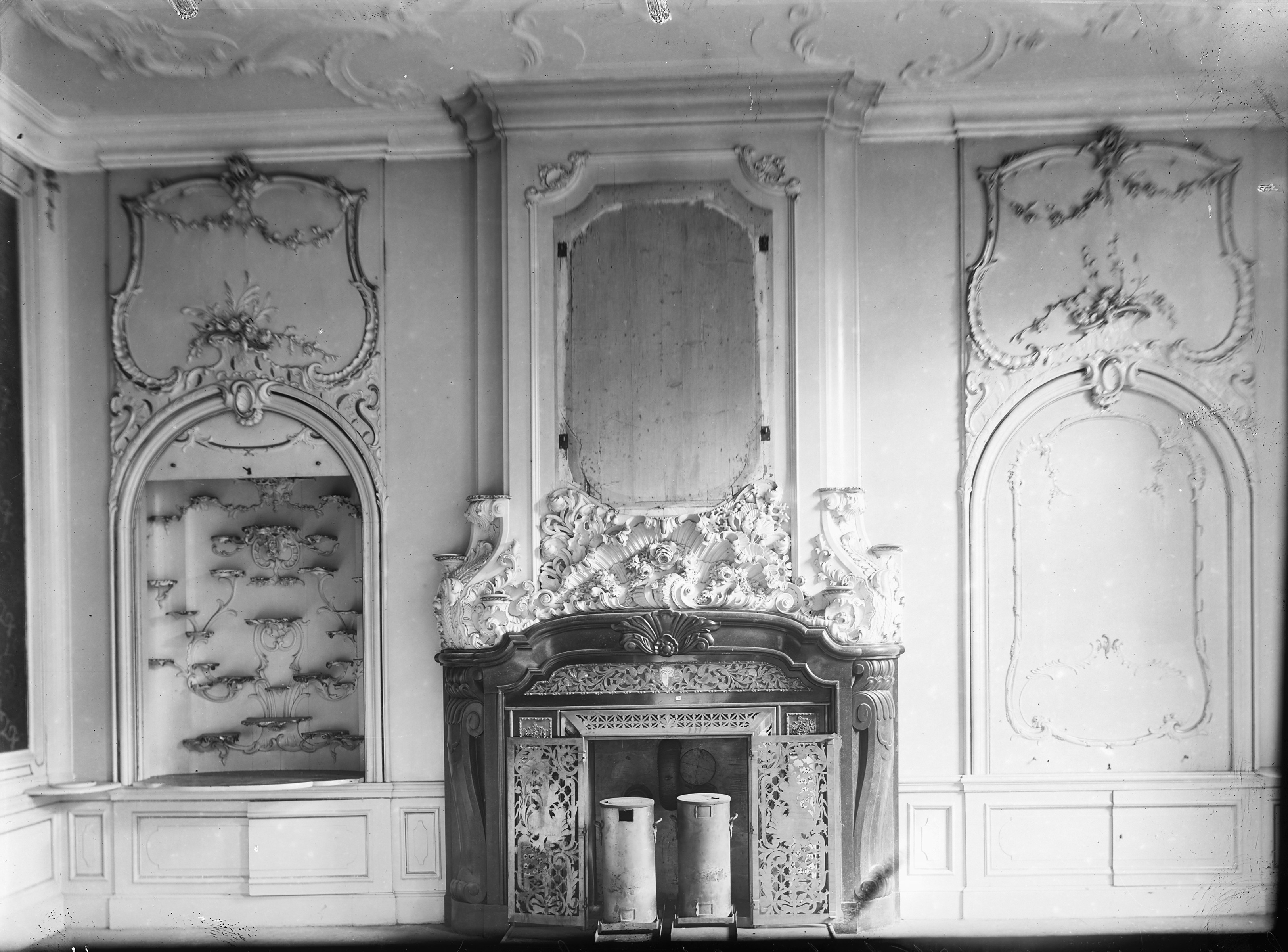 The Maison Wijtenburg interior, until 1903 located at Steenschuur 7, a national heritage site in Leiden